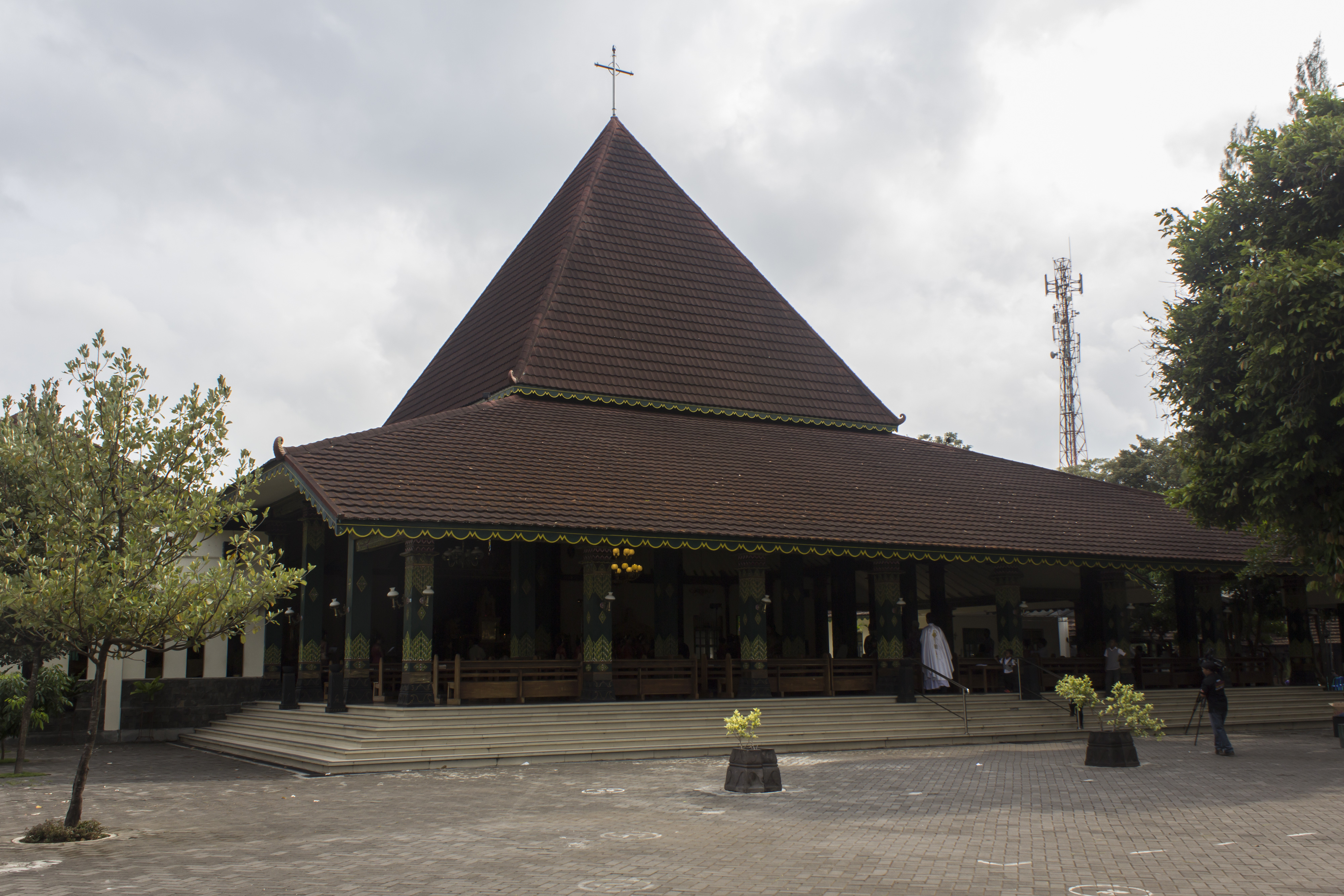 Exterior of Ganjuran Church